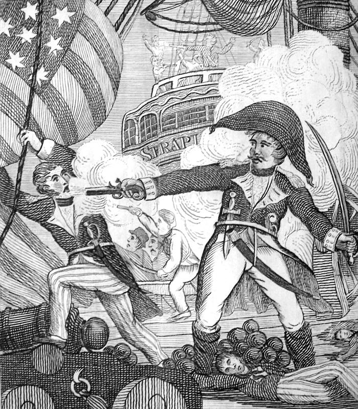 Engraving illustration of "Paul Jones, shooting Lieut. Grubb, for attempting to strike the Colours", from "The Life and History of PAUL JONES, the English Corsair", published by James Williams, Portsea, England, c1820.